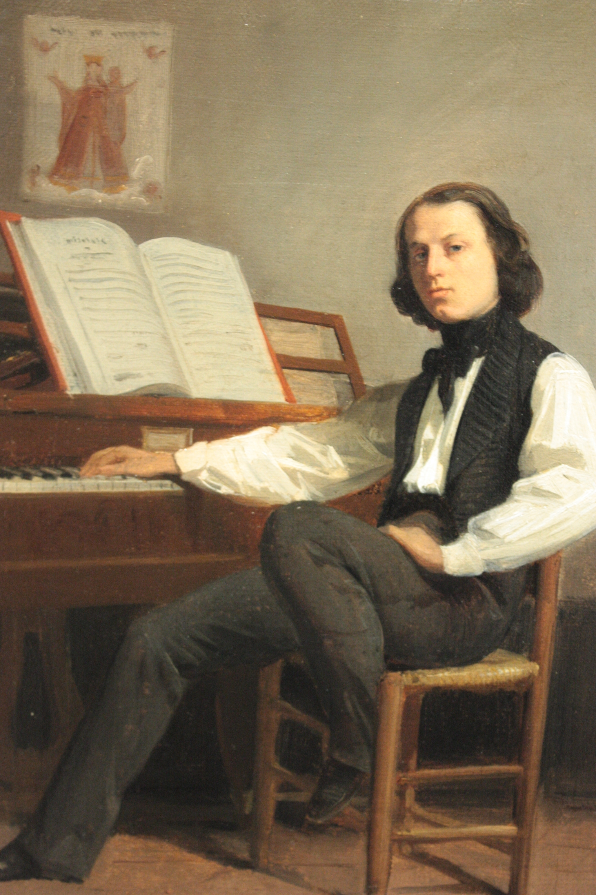 The composer Georges Bousquet (1818-1854) by Isidore Pils 1841